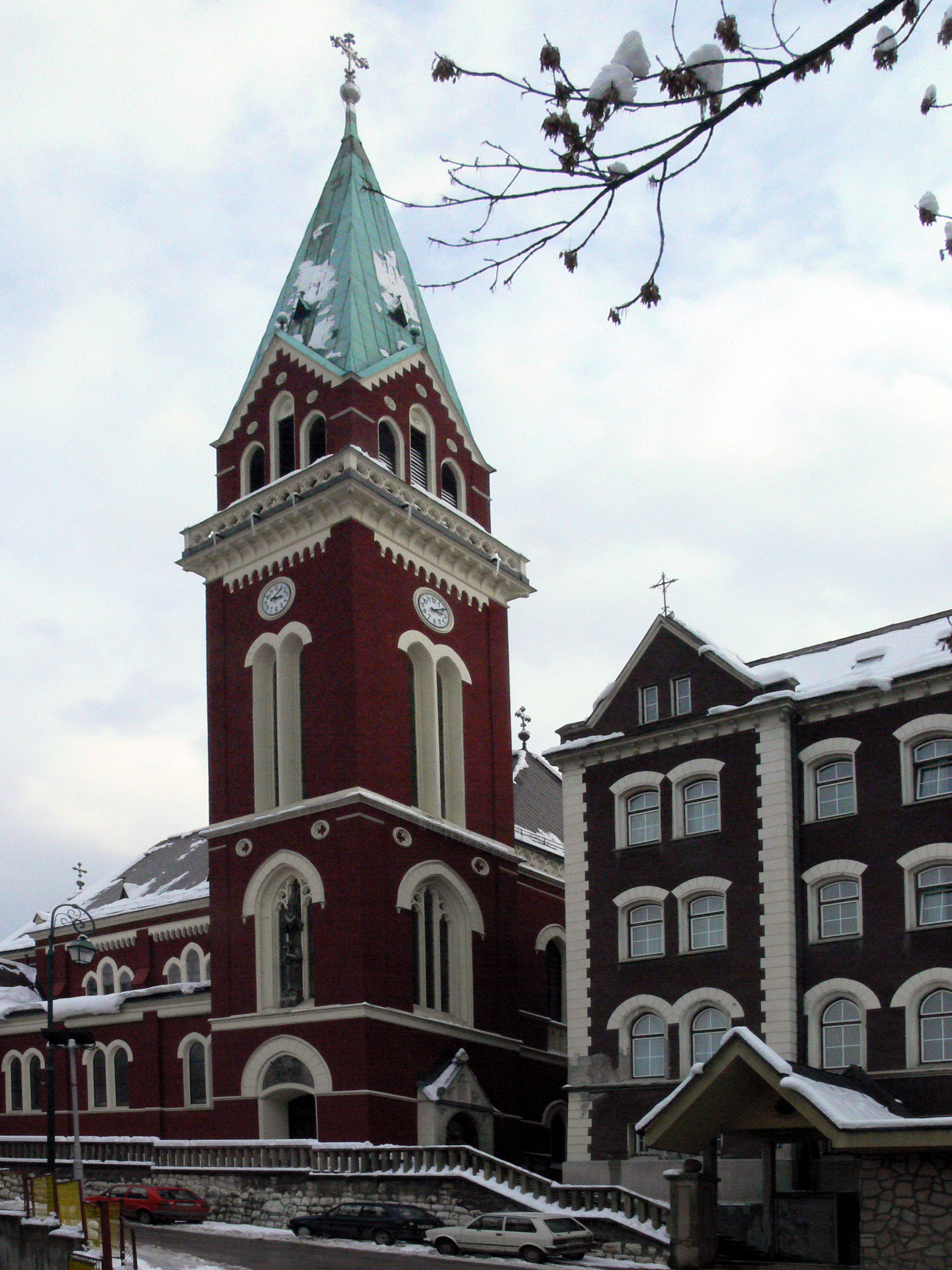 The Church "St. Antonius" near the Franciscan monastery in Sarajevo.